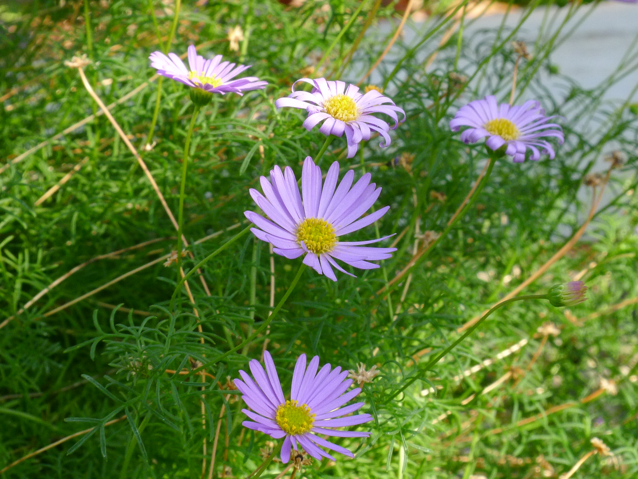 Brachyscome iberidifolia